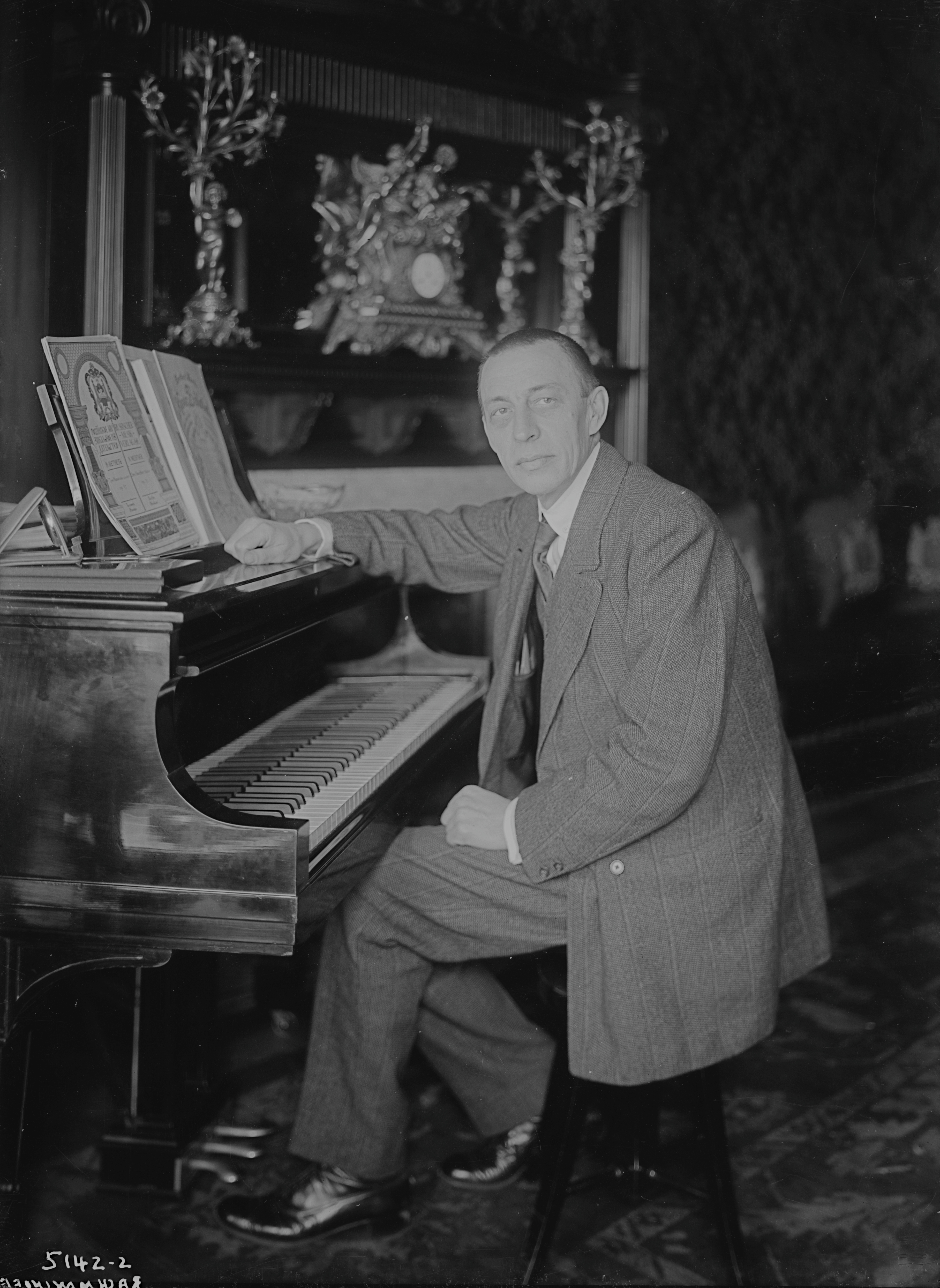 Sergei Rachmaninoff, photo portrait, seated at Steinway grand piano.